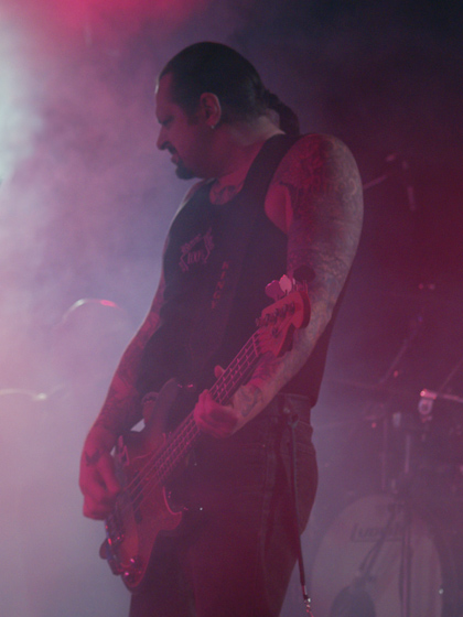 Rose Tattoo Meredith Music Festival December 2006